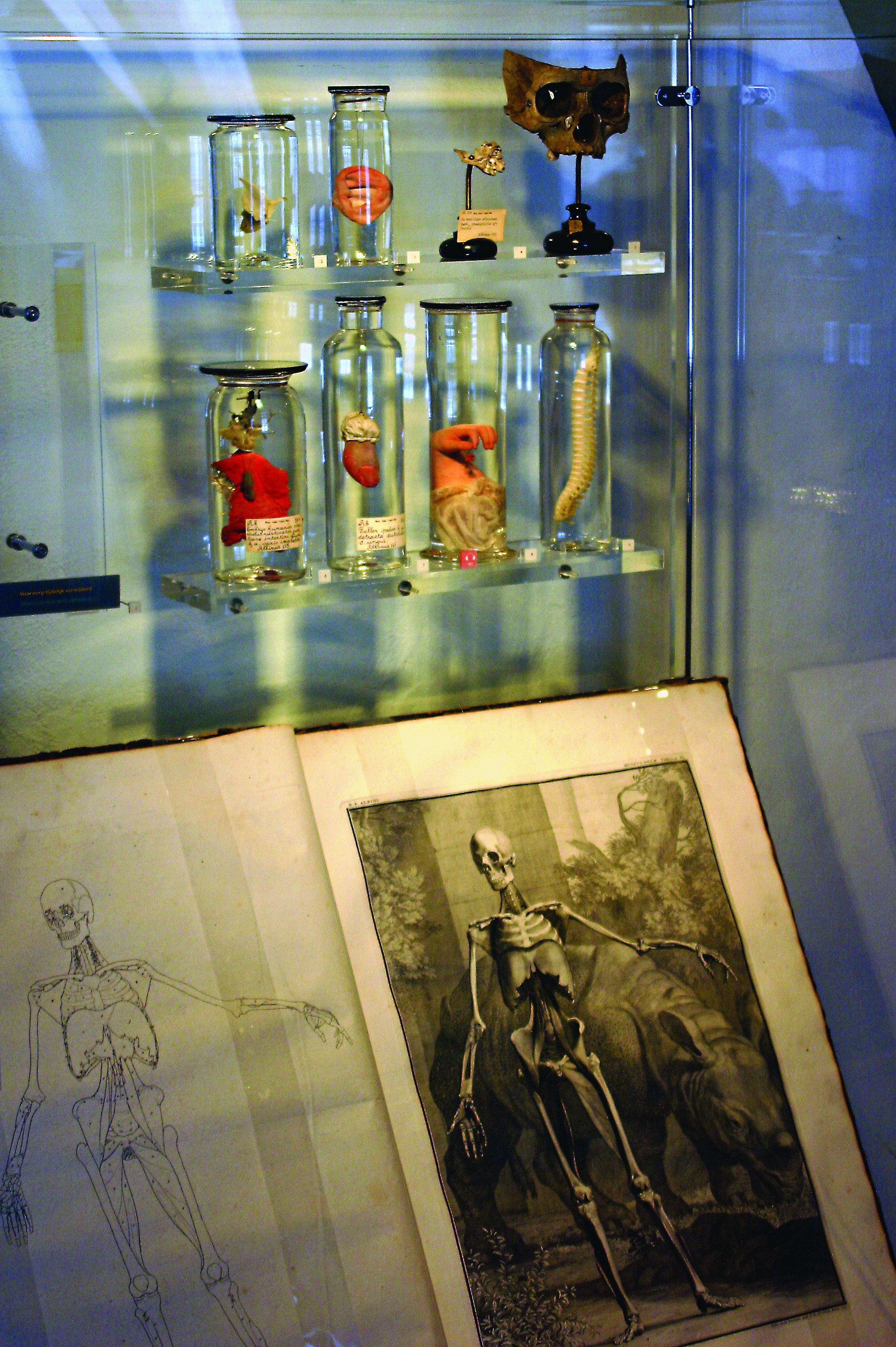 Museum Boerhaave, Leiden - Specimens prepared by Bernhard Siegfried Albinus (1697-1770) and his brother Frederik Bernhard Room 7